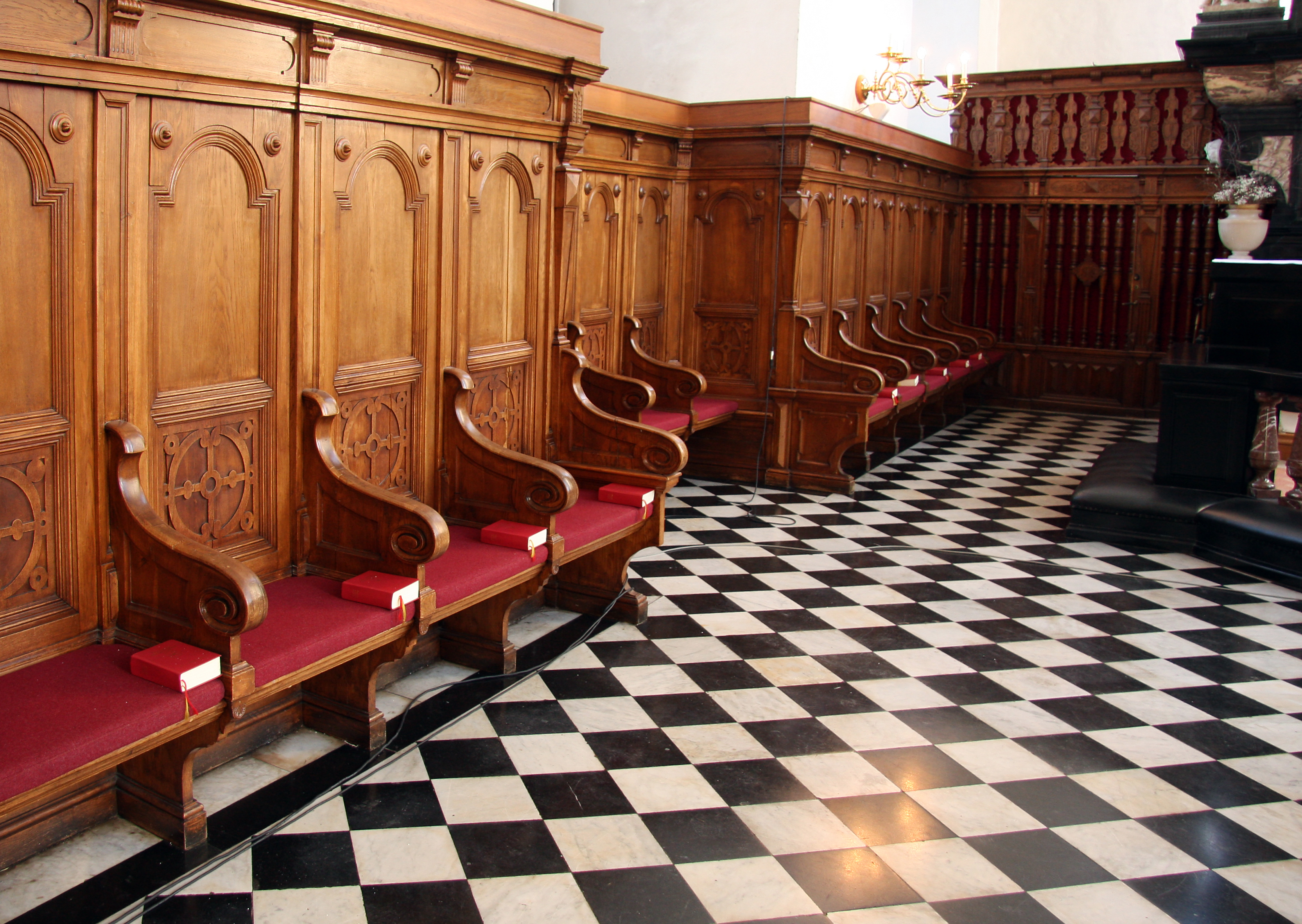 Choire seats in Heliga Trefaldighets kyrka (Holy Trinity Church) in Kristianstad, Sweden.